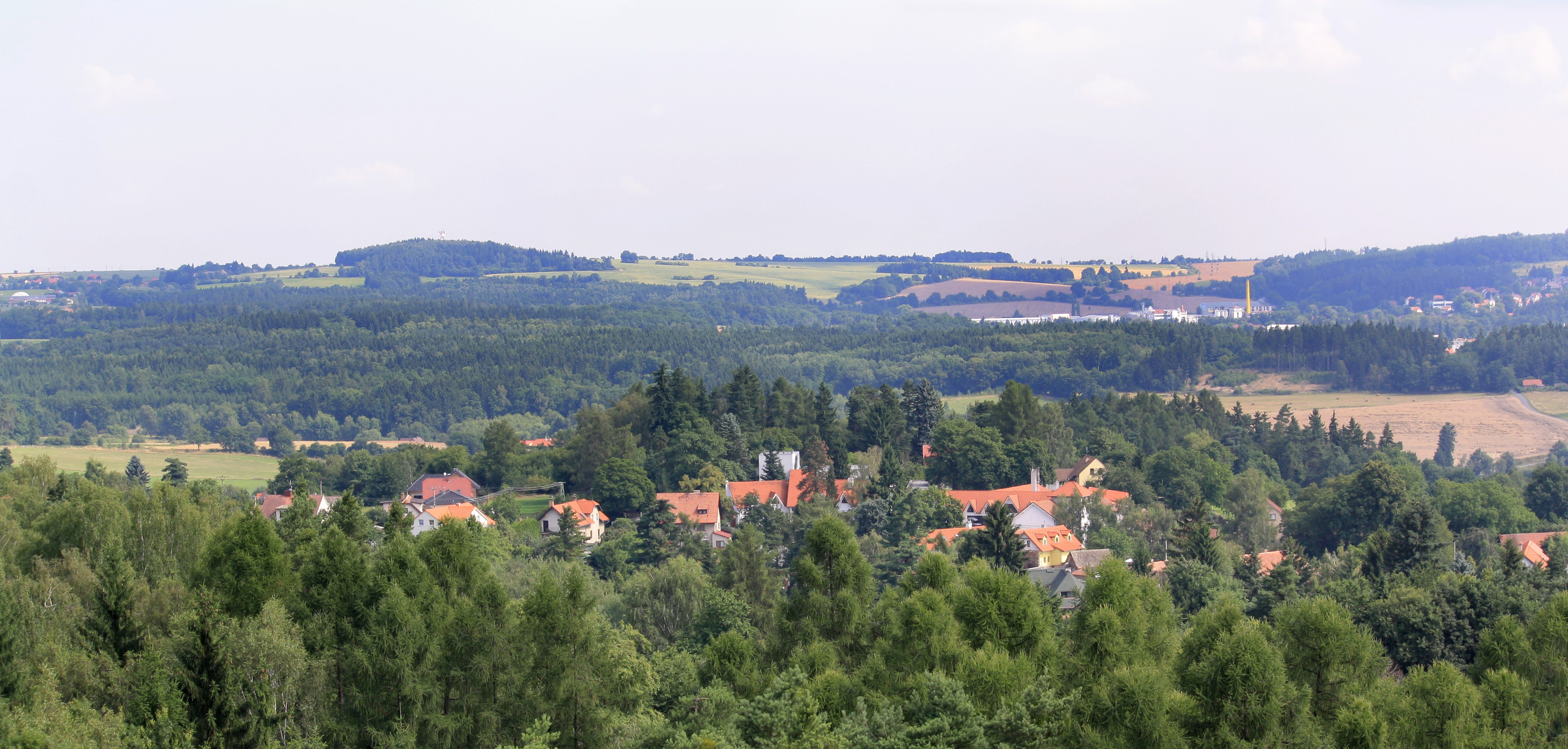 View from Ládví-Vlková lookout to Ládví, part of Kamenice, Czech Republic